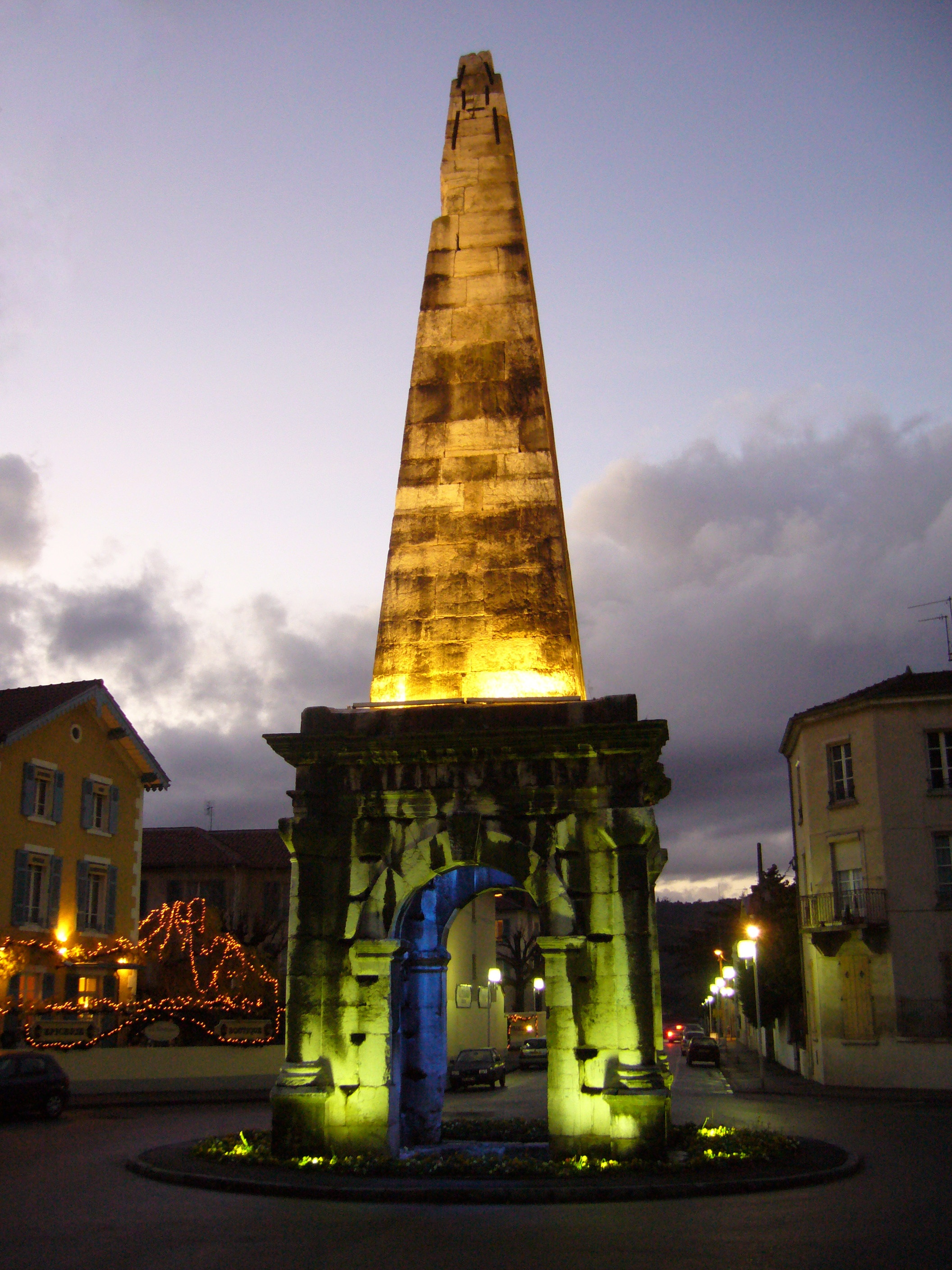 Vienne's Roman "Pyramid" at night (Isère, France)